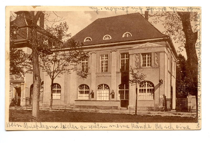 Liederkranzhaus an der Allee 70 in Heilbronn